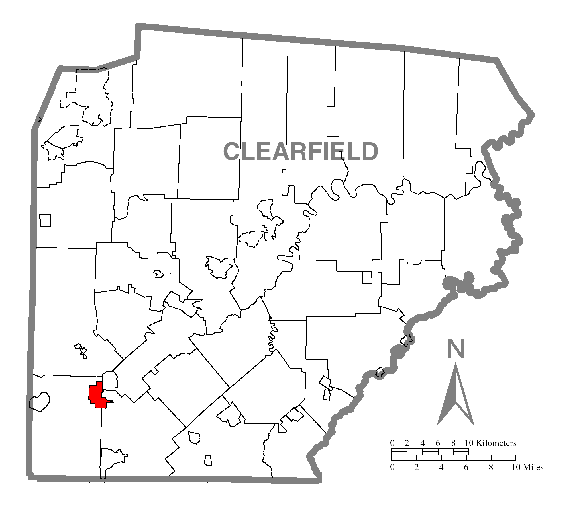 A map of Clearfield County showing New Washington, Pennsylvania (alternate) highlighted on the map.